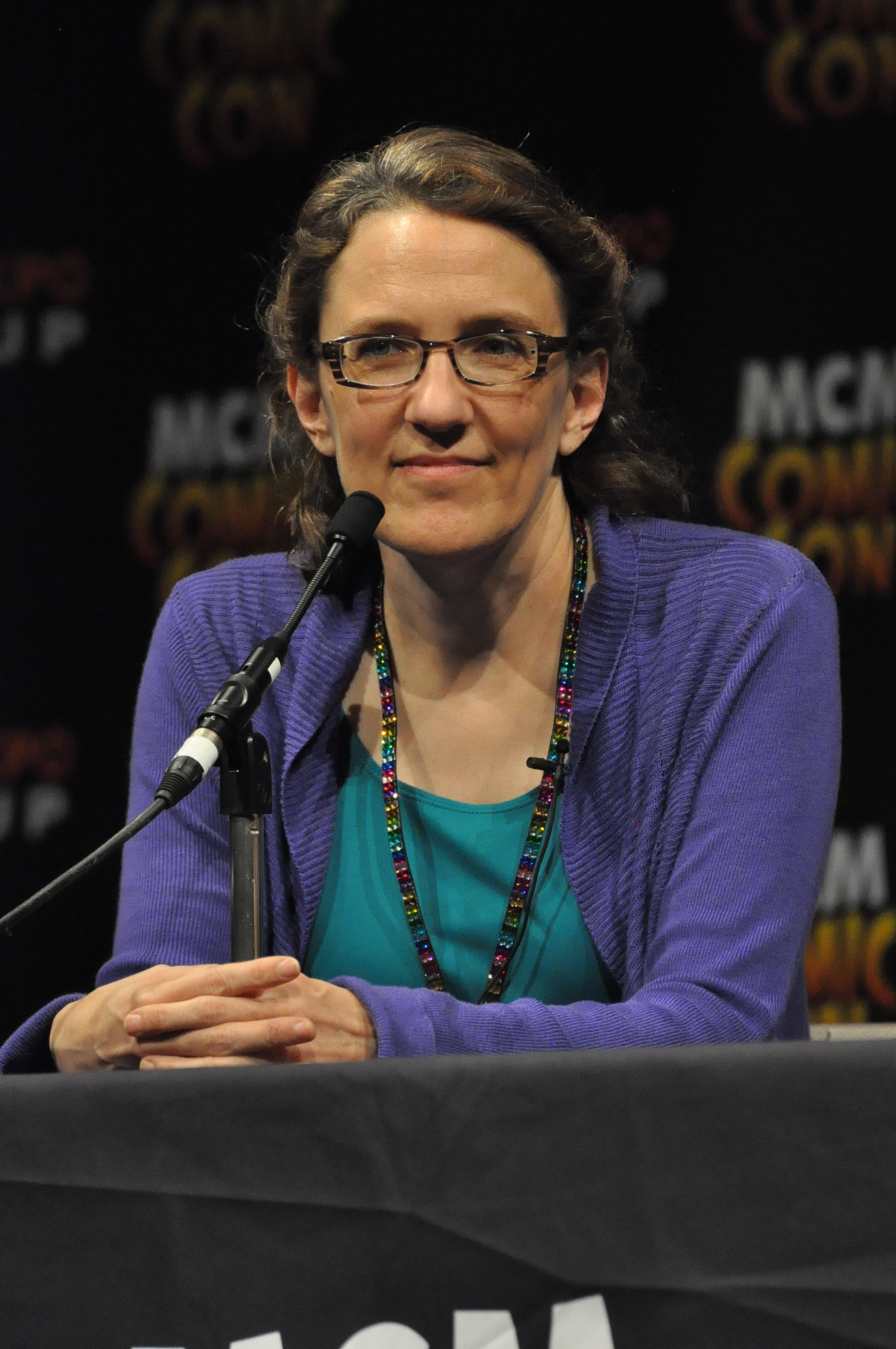 DSC_3132 MCM London Comic Con, Once Upon A Time Panel with Jane Espenson, Raphael Sbarge, Keegan Connor Tracy and Jessy Schram.